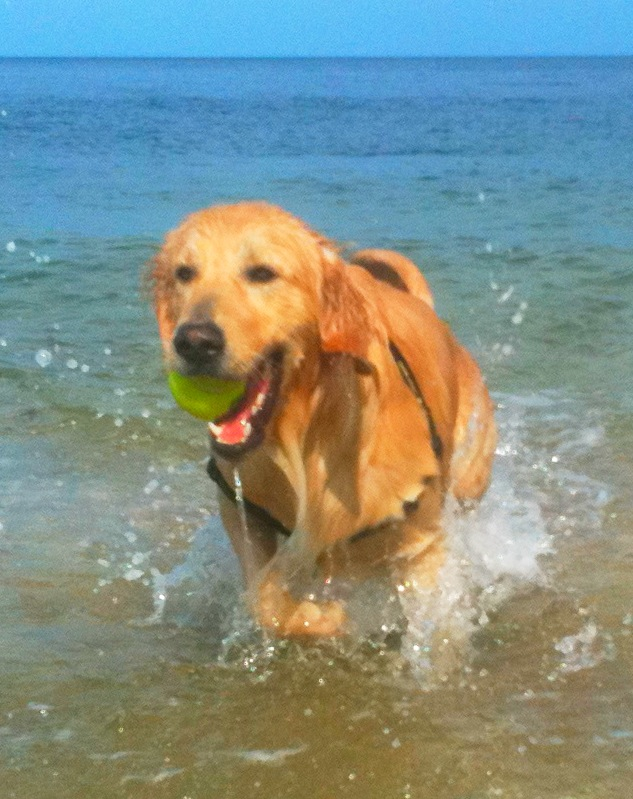 Golden retriever fetching a tennis ball from the ocean.